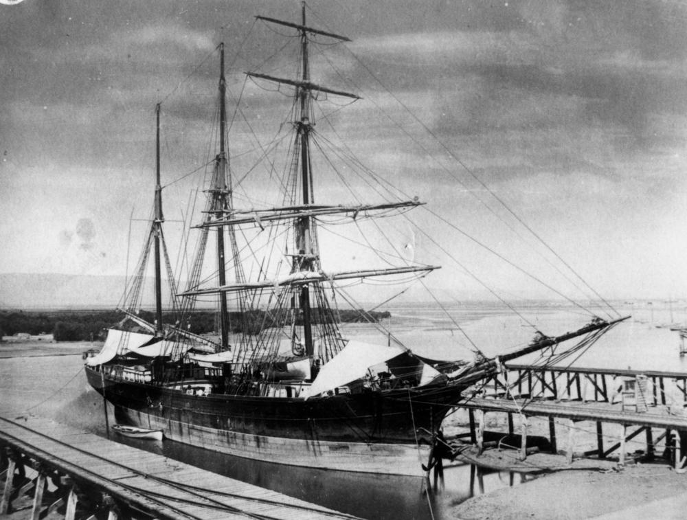 Empress of China (ship). Empress of China at Mart's Jetty, Port Pirie, 1876.